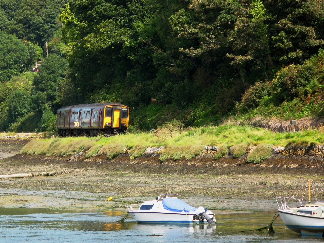 150238 running alongside the East Looe River near Looe railway station, Cornwall.